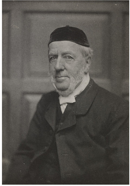 Portrait of Alfred Gatty (1813-1903), writer and vicar of Ecclesfield (father of Juliana Horatia Ewing); in: Portraits of many persons of note photographed by Frederick Hollyer, Vol. 1, platinum print, 1884 Victoria and Albert Museum, London, museum no. 7628-1938 (Link)